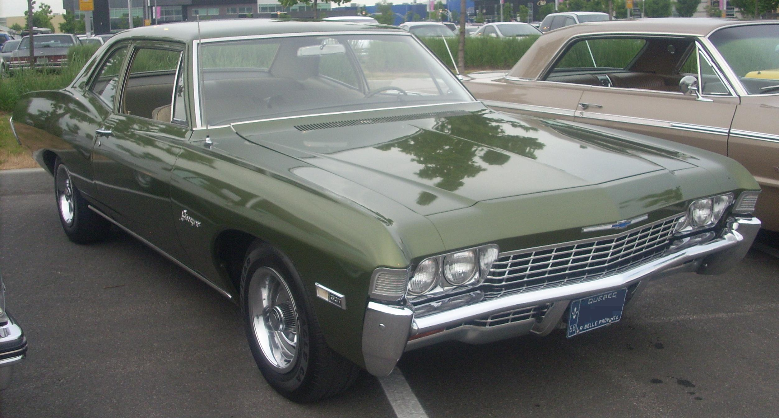 1968 Chevrolet Biscayne photographed in Laval, Quebec, Canada at Centropolis Laval.